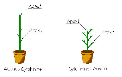 Scheme showing the effect the auxin/cytokin balance has on apical dominance